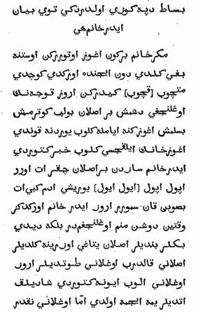 Part of Dede Korkut. Basat kills Depegoz (beginning)